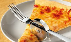 tenedor